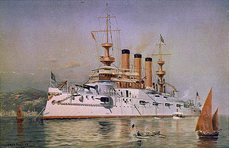 Title: New battleship Maine, building at Cramp Works, Philadelphia / Fred Pansing. Abstract/medium: 1 photomechanical print : halftone, color.